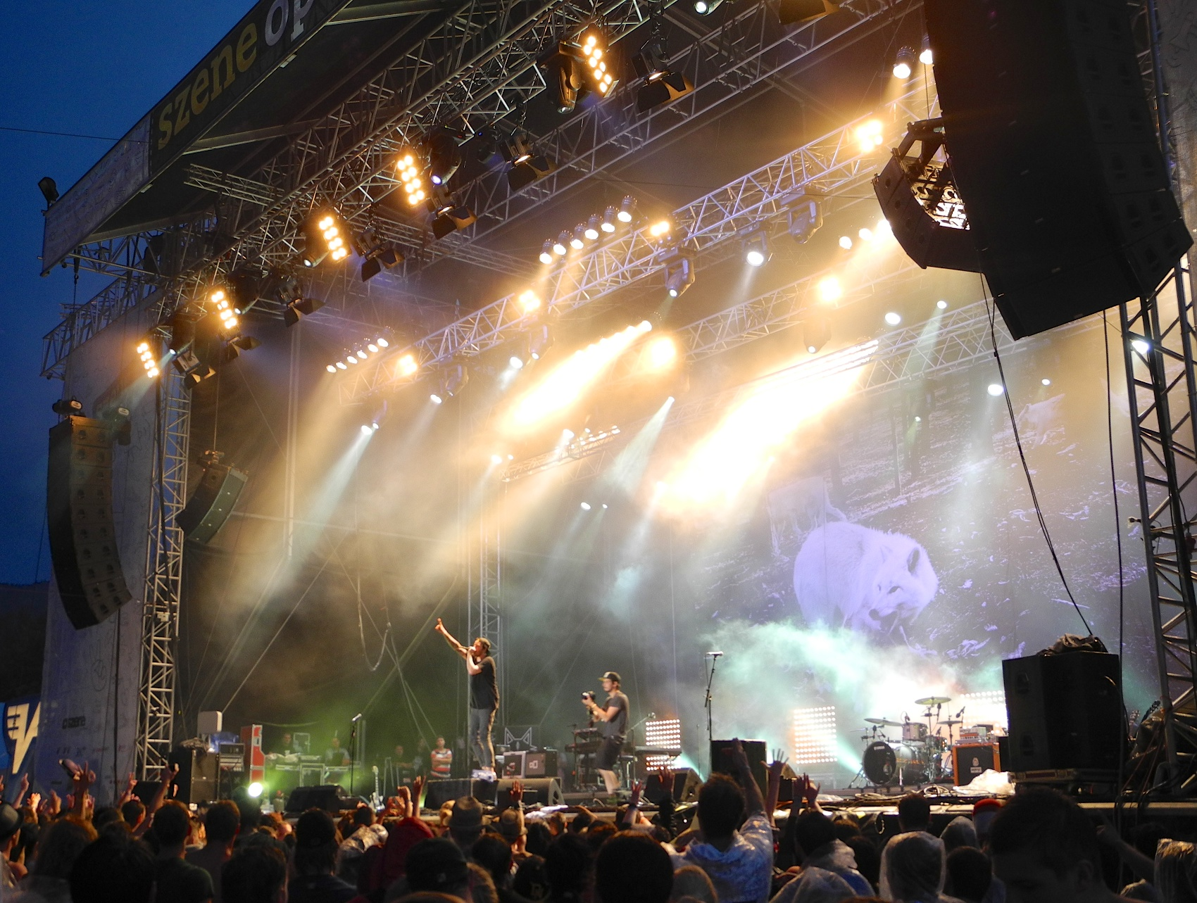 Casper at the Szene Openair Festival 2012 in Lustenau